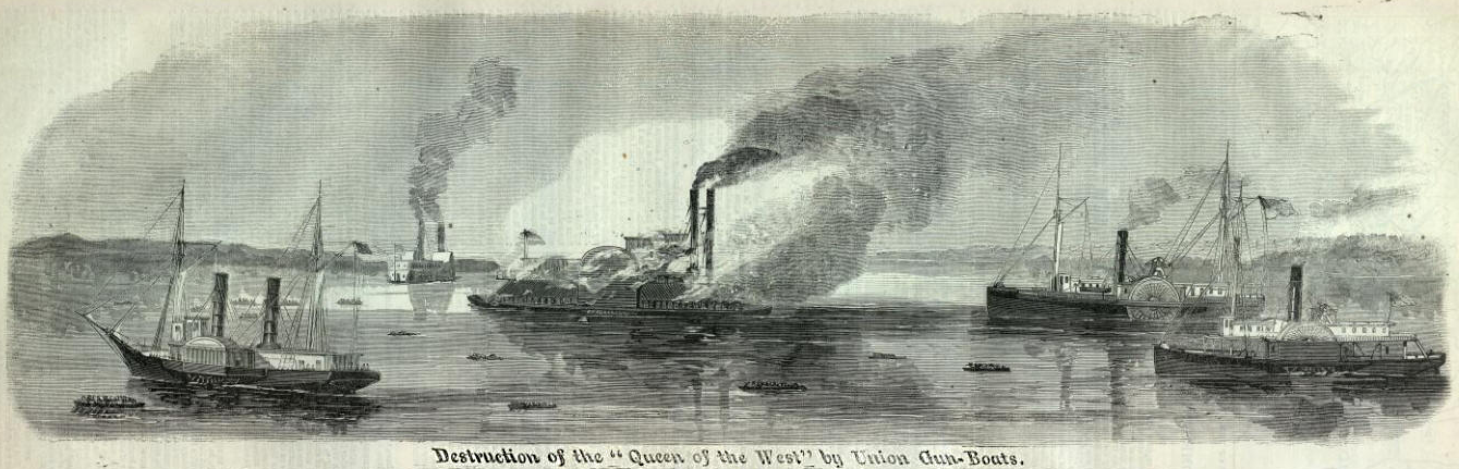 "Destruction of the 'Queen of the West' by Union Gun-Boats", A line engraving published in "Harper's Weekly", 1863, depicting CSS Queen of the West being destroyed in Grand Lake, Louisiana, during an attack by USS Estrella (extreme left), Calhoun (extreme right) and Arizona (second from right).